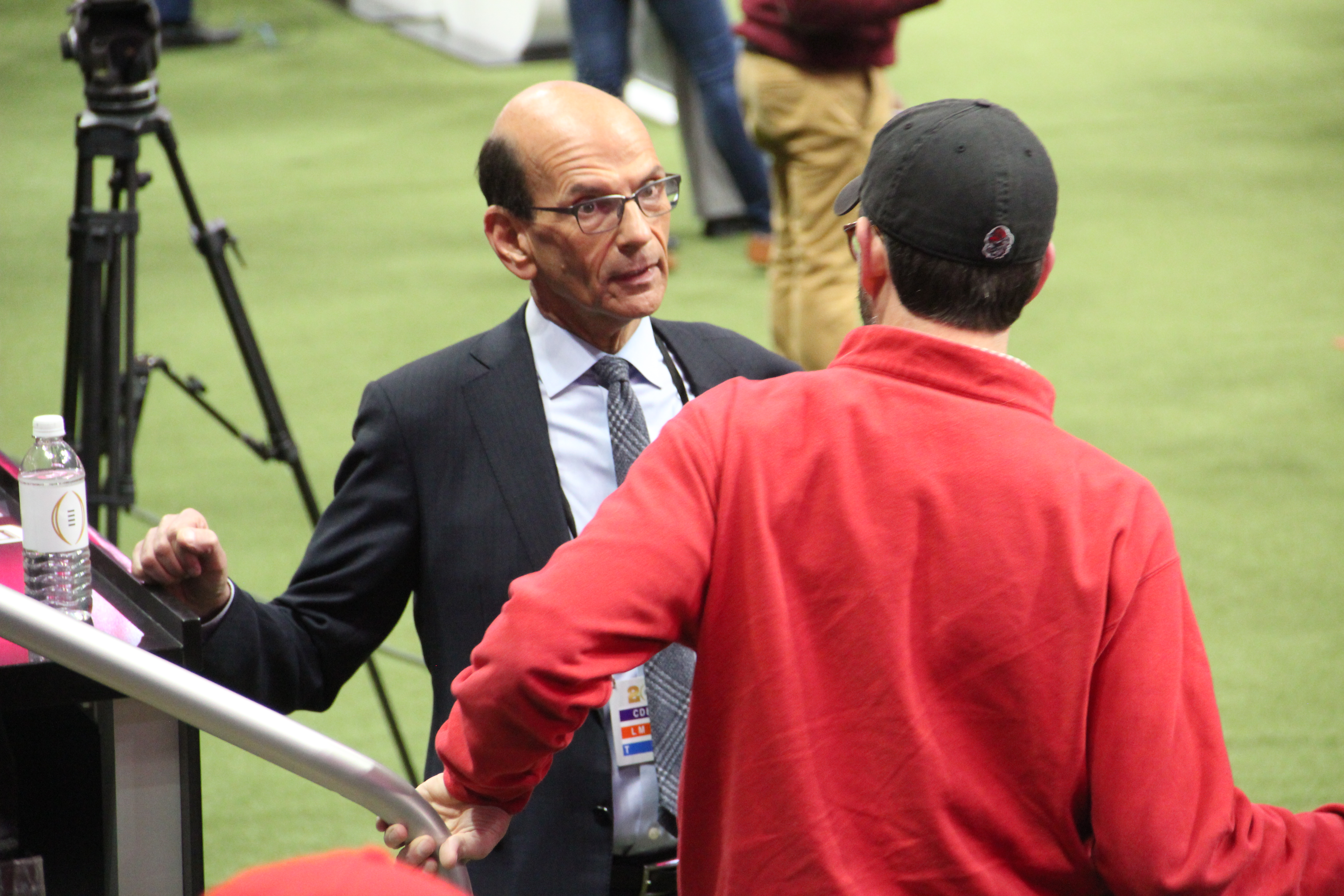 Paul Finebaum at CFB National Championship Game media day, 2018